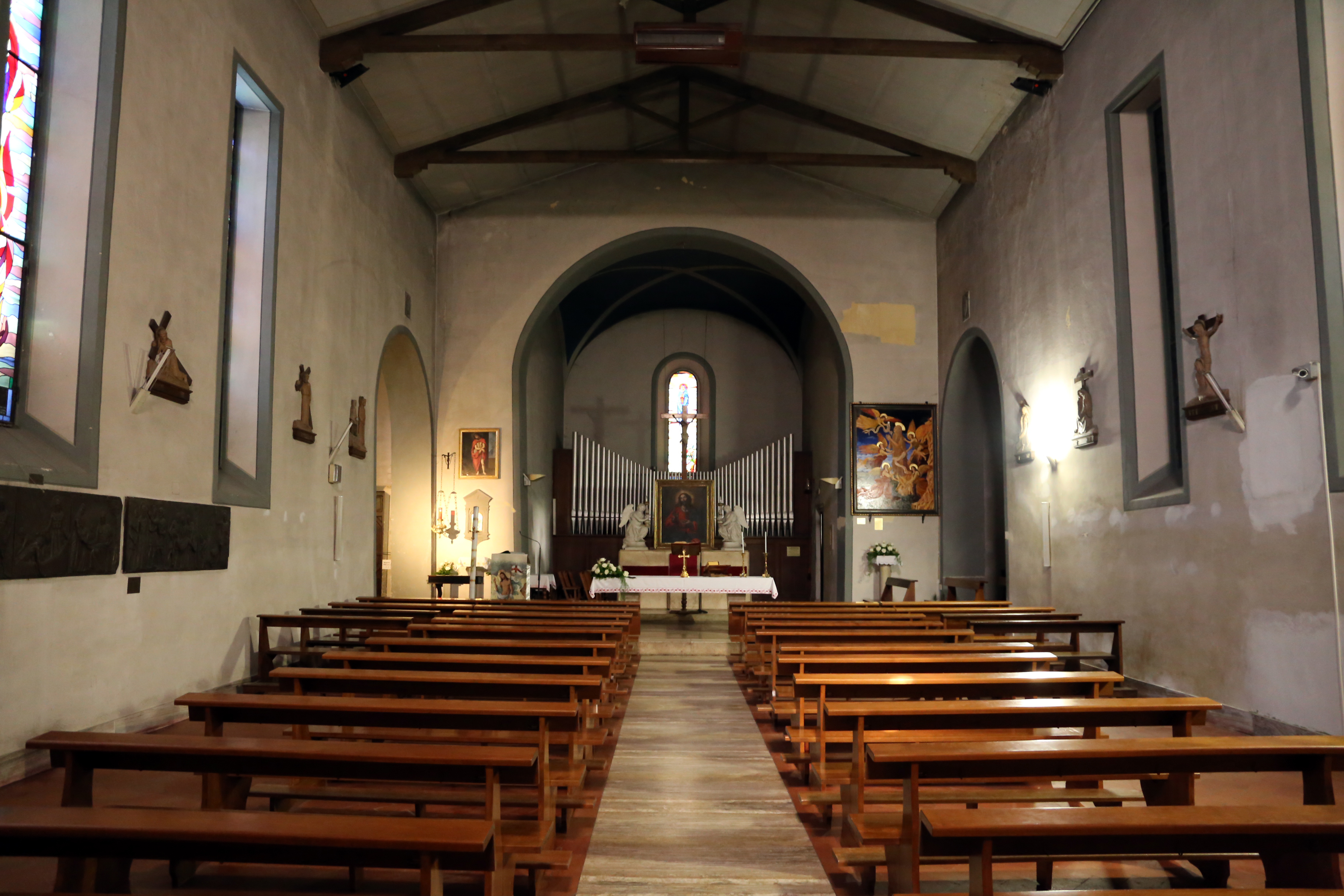 Santa Maria Assunta a Staggia